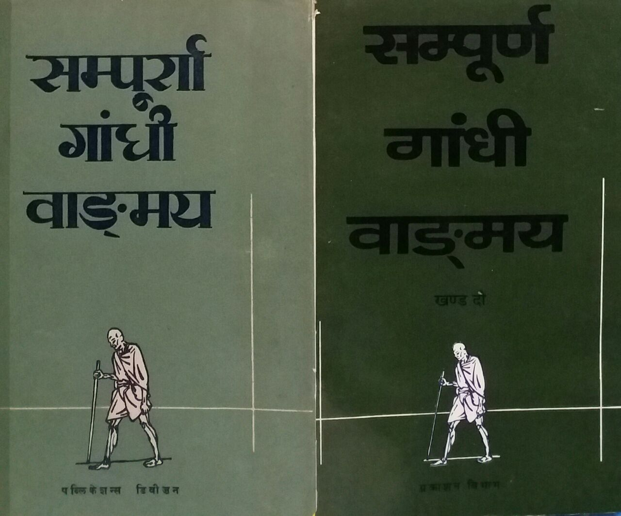 Collected works of Mahatma Gandhi